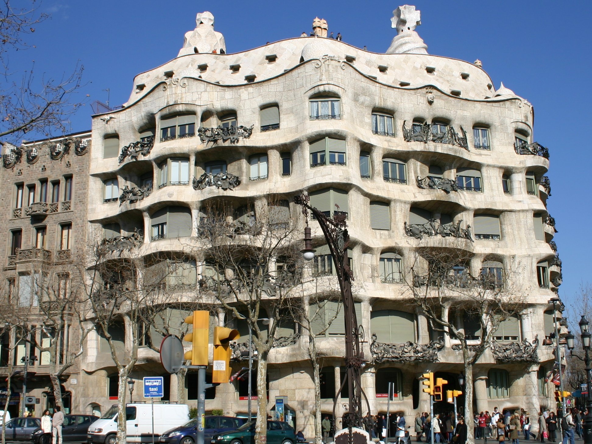 Casa Mila, Barcelona